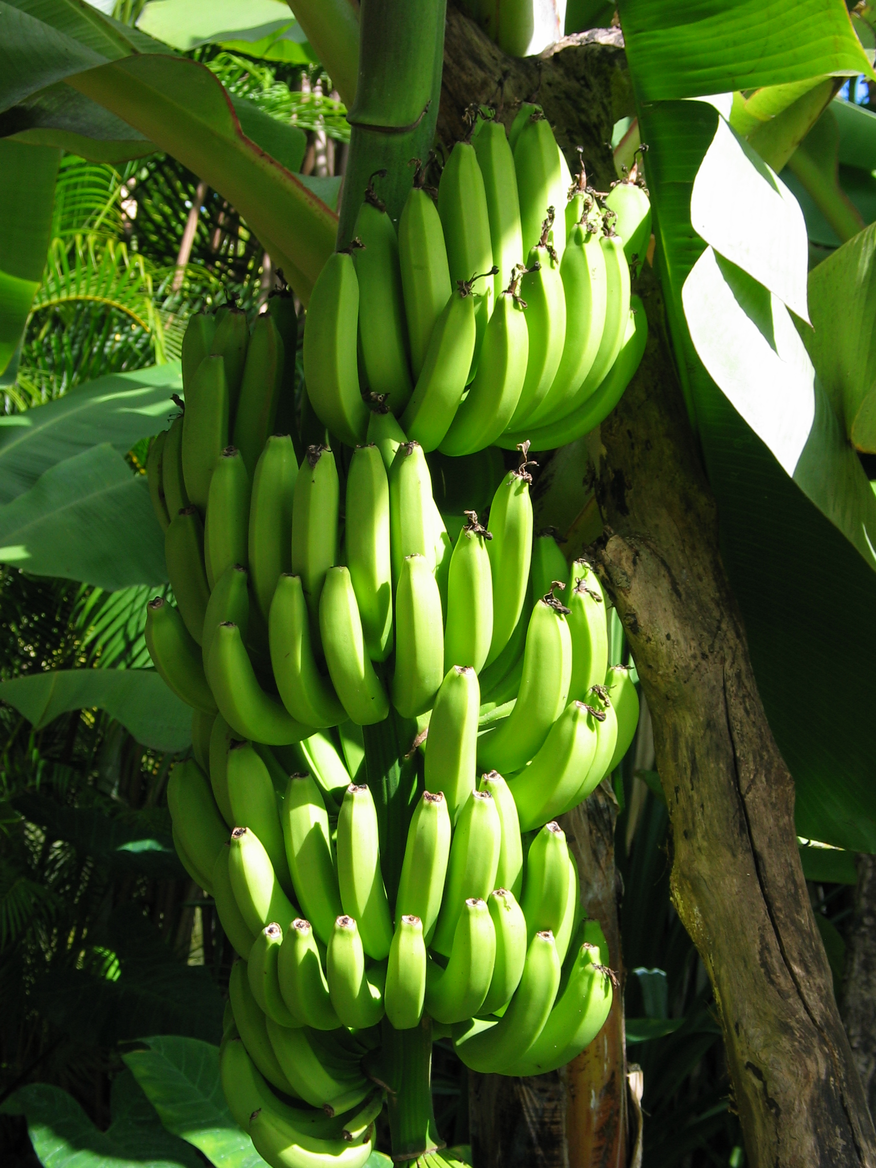 Bananas growing at the Polynesian Cultural Centre in Hawaii.